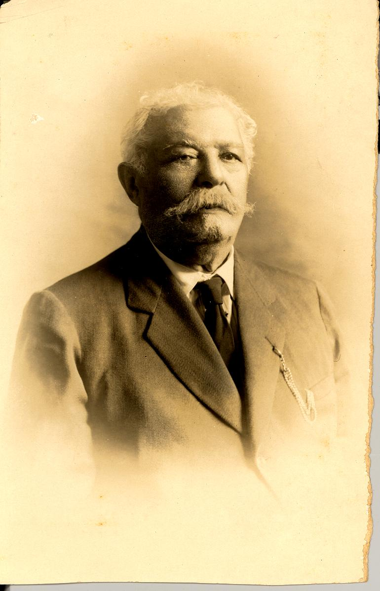 Photograph of Emigdio Patricio Solano Espinosa, named governor of the department of Magdalena in Colombia on December 17, 1904.